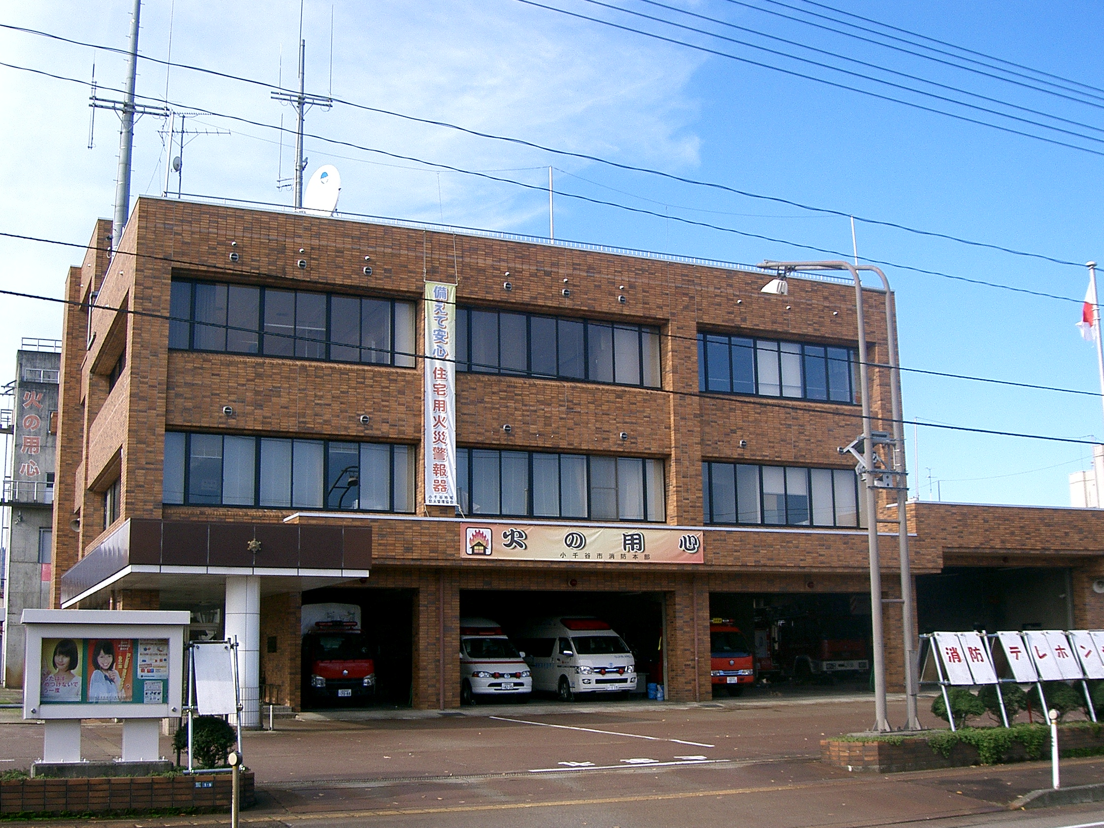 Fire Department of Ojiya city, Niigata prefecture, Japan